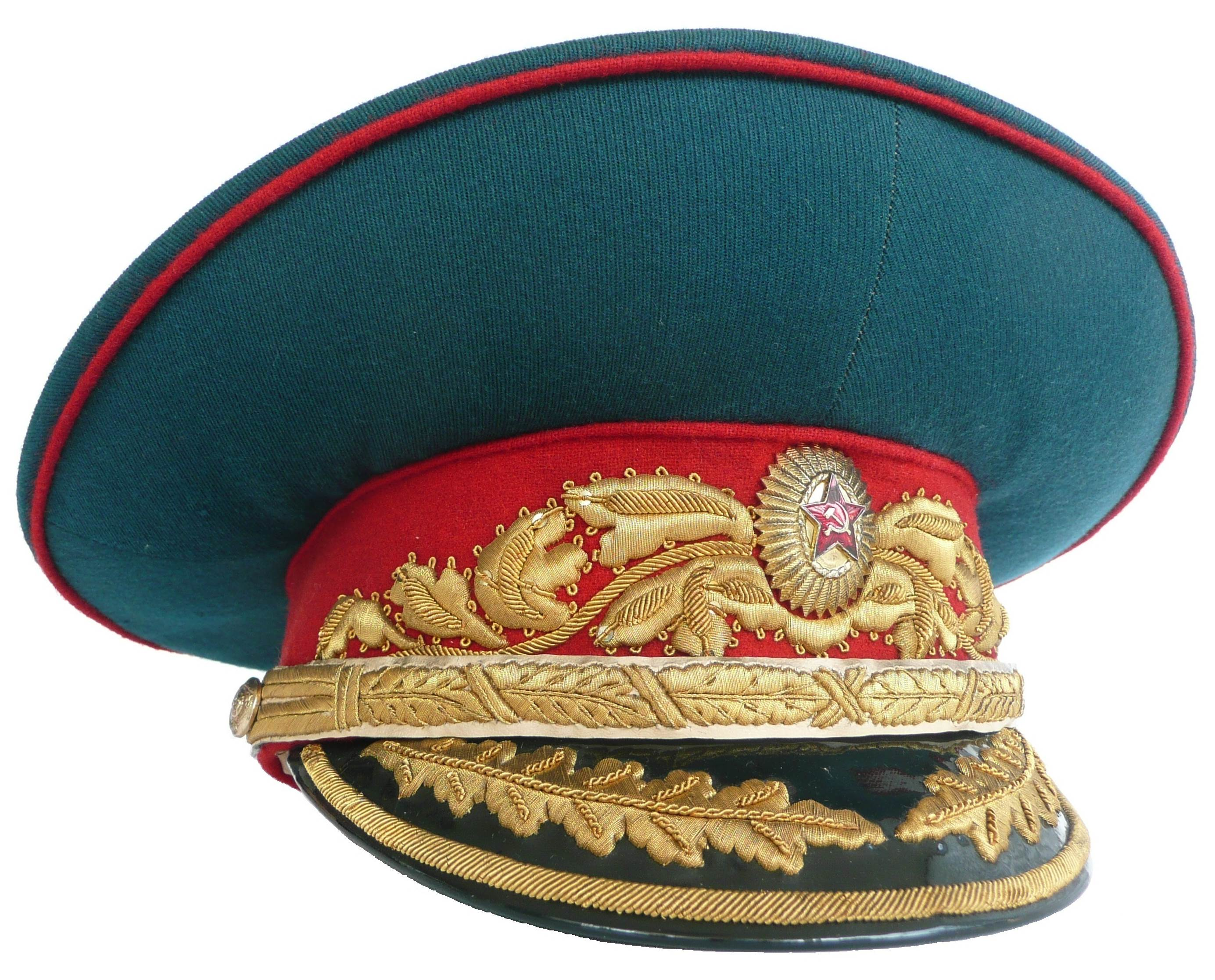 The photo shows a peaked cap of a Marshal of the Soviet Union , so the commander of the soviet army (above the Generals). This is a very, rare, valuable original cap.